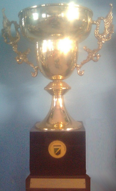 Trophies of association handball of northeast of Brazil